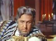 Screenshot of Frank Thring from the trailer of the film King of Kings (1961).